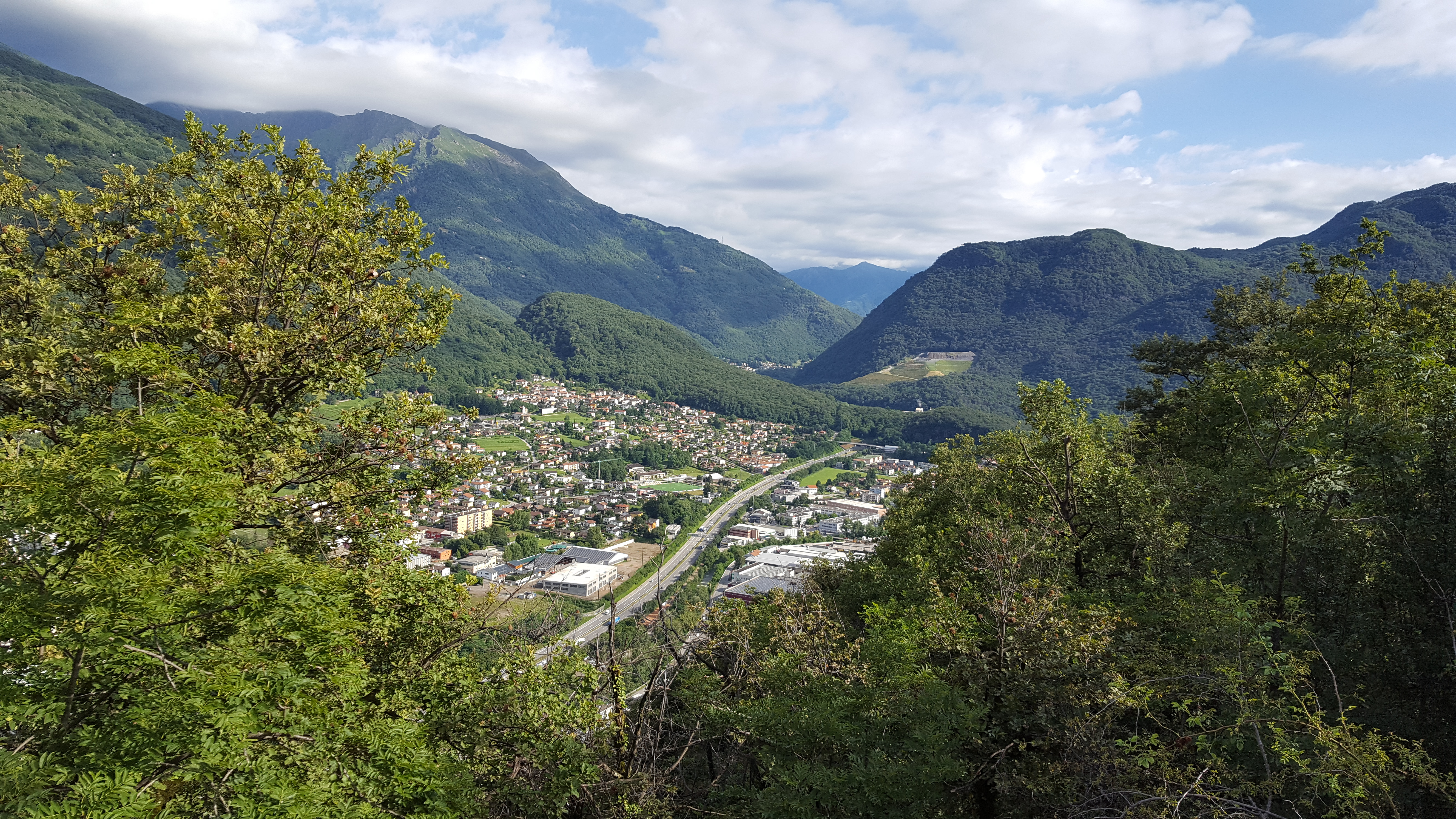 Torricella-Taverne, picture taken from San Zeno (Lamone, Ticino, Switzerland)